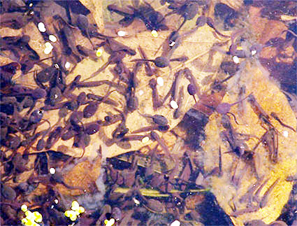 Tadpoles of the Common Frog after hatching in April 2005